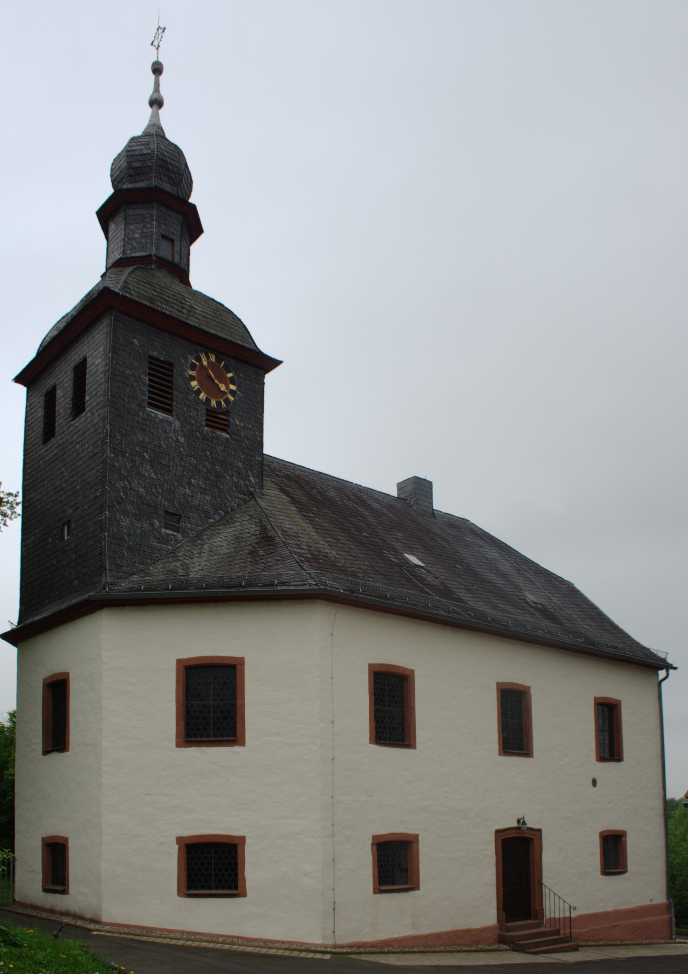 Protestant church in Muecke Gross-Eichen, Hesse, Germany